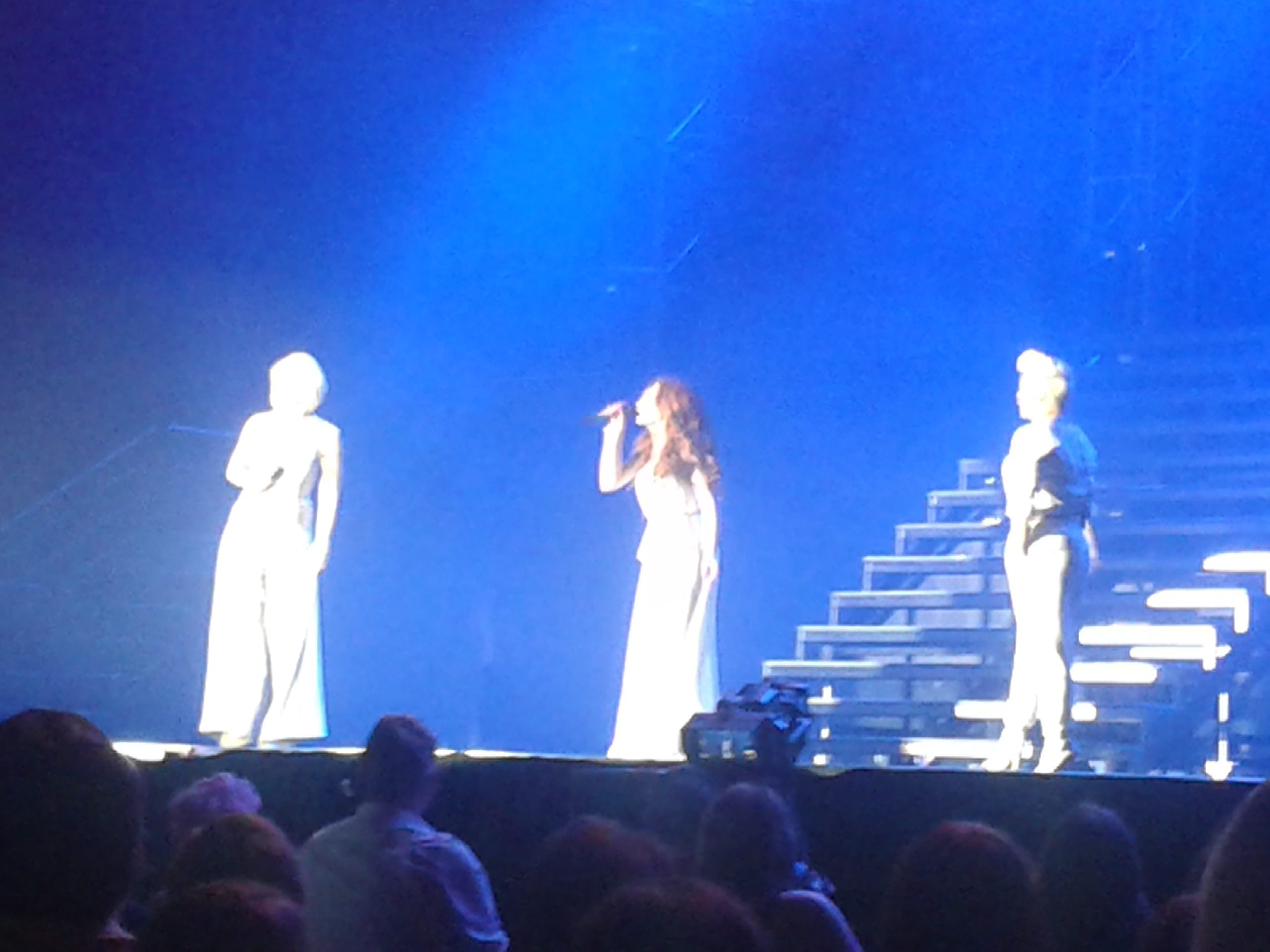 Atomic Kitten performing live at the SECC in Glasgow on 7th May 2013 as part of The Big Reunion arena tour.